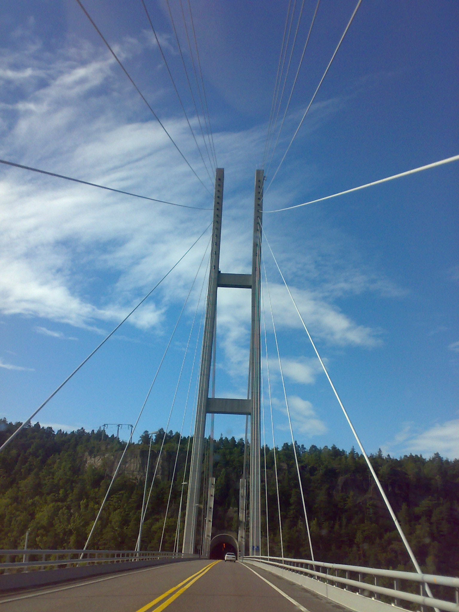 Grenland Bridge, Porsgrunn, Norway (1996)